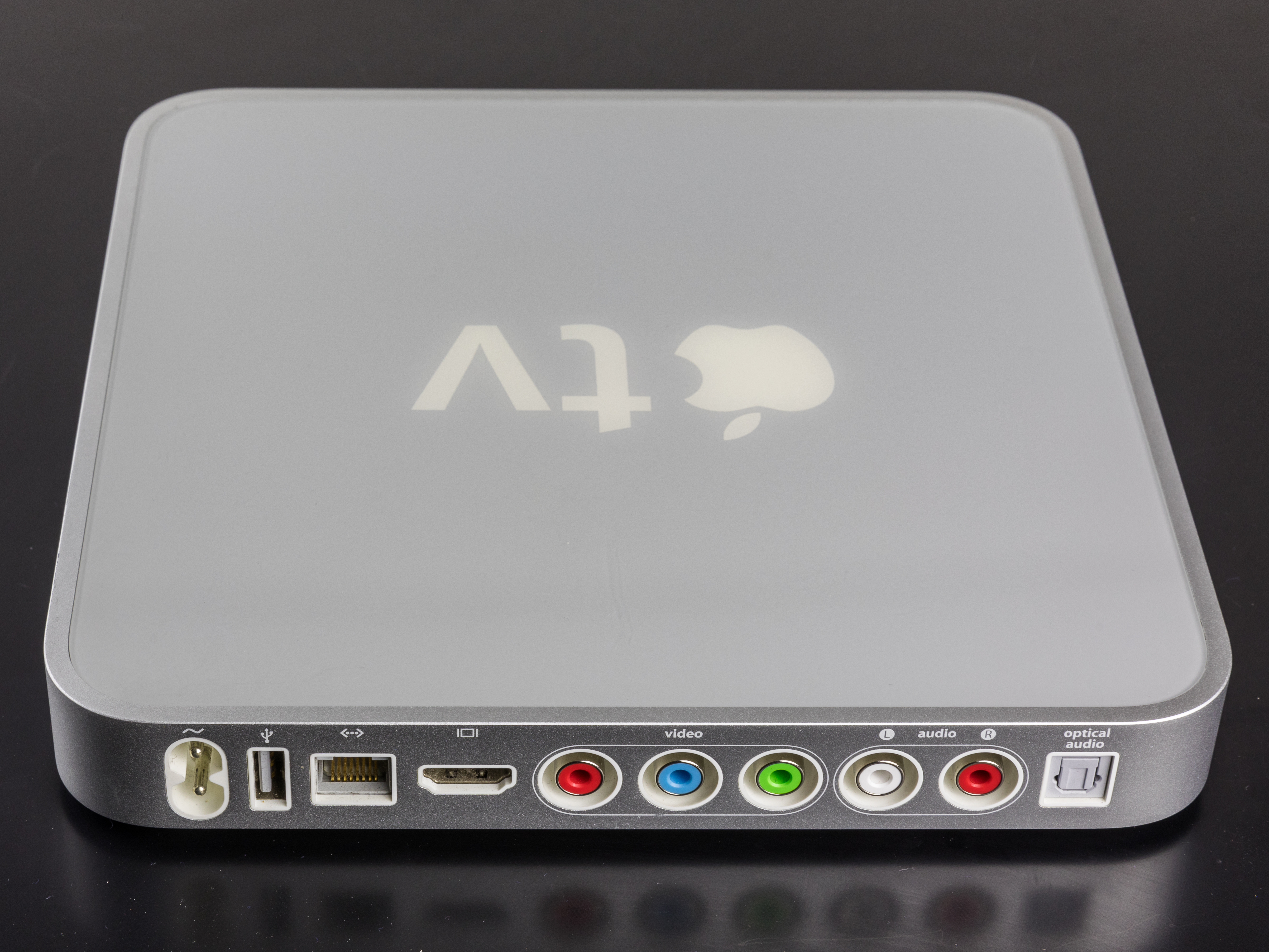 Apple TV. 1st generation (Model A1218)